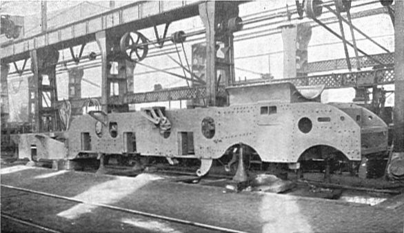 Four stages in the construction of a 'Pacific' locomotive at Doncaster Works The Frames in Position. Photo: LNER